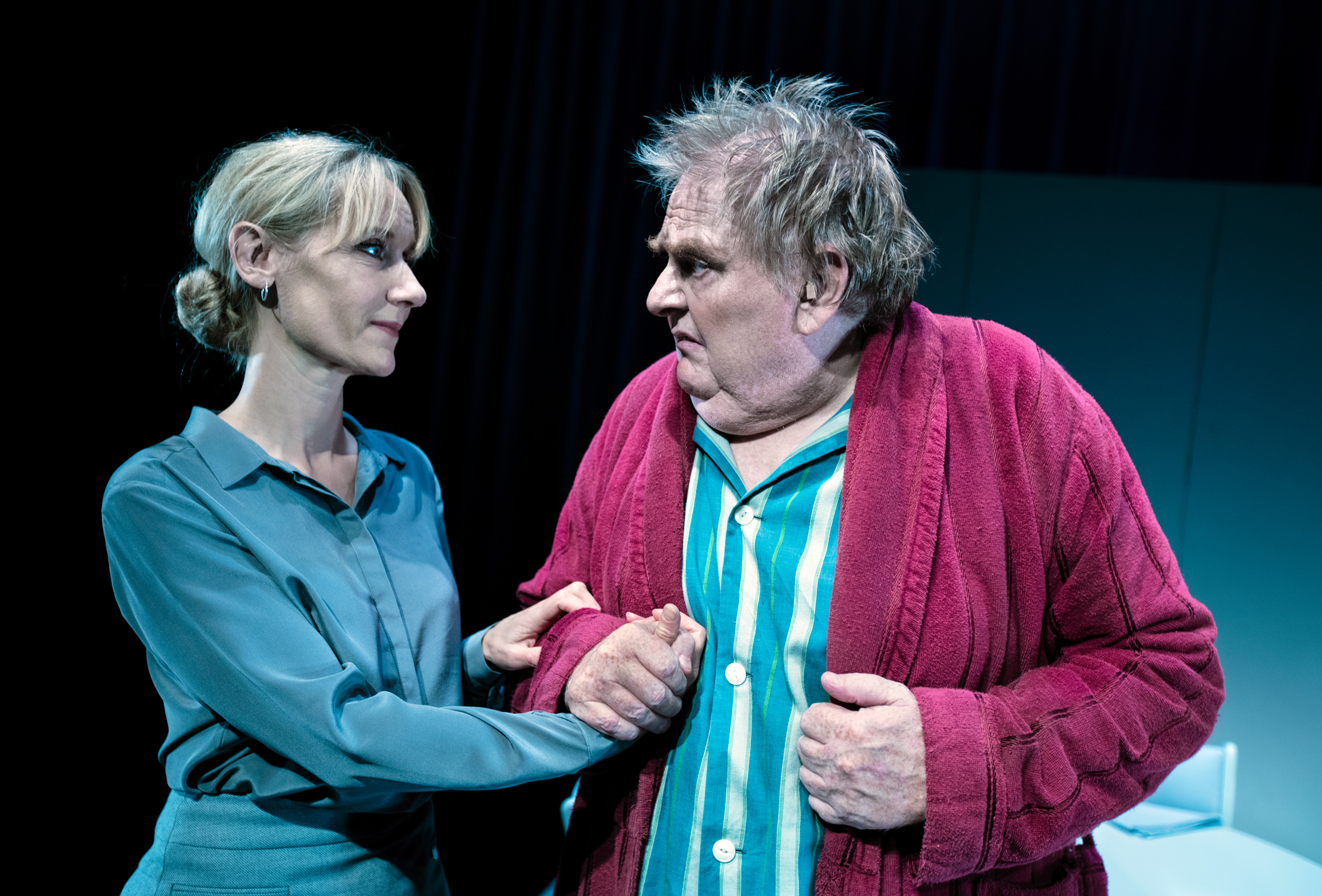 Anette Støvelbæk and Ole Thestrup in the Copenhagen theater Folketeatret's production of the play "Min far" (Le Père) by Florian Zeller.